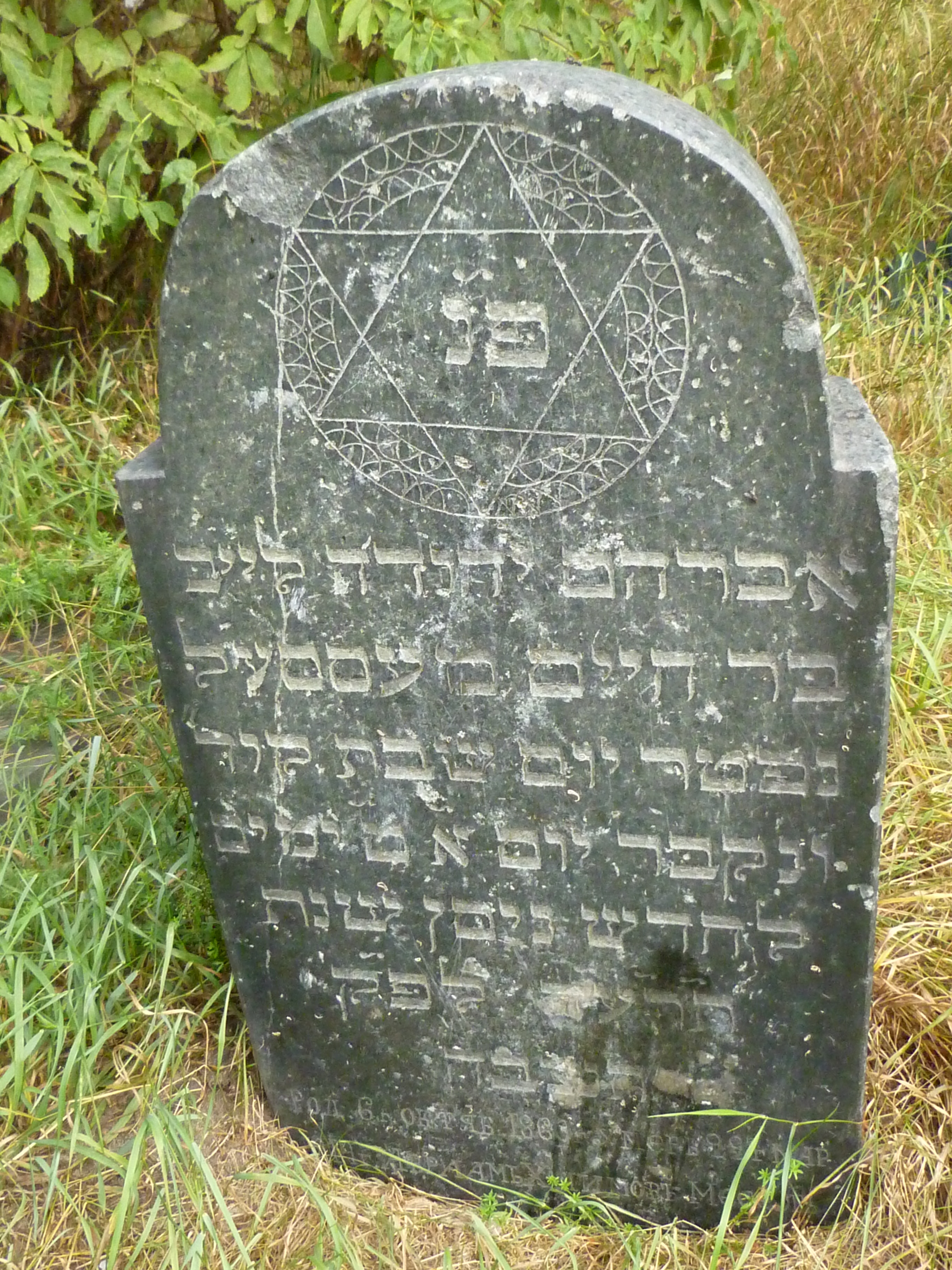 старая еврейская могила. Петрозаводск. Карелия. Россия. Old Jewish gravestone In the ancient Jewish cemetery of "Cantonists" Petrozavodsk, Karelia, Russia.